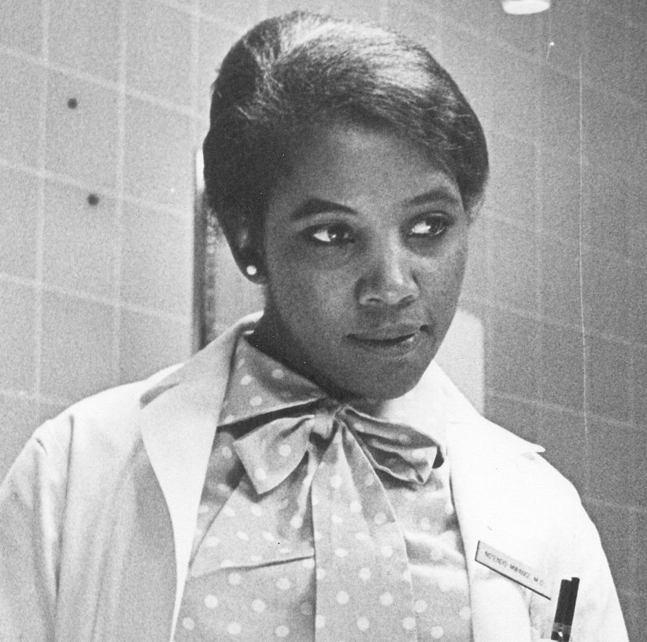 Florence Gladwell Ng'endo Mwangi, 1965, in an operating room. Photograph by Robert B. Shumway, Staff of The Independent Press-Telegram, Long Beach, CA. Must give credit to the Independent Press-Telegram.